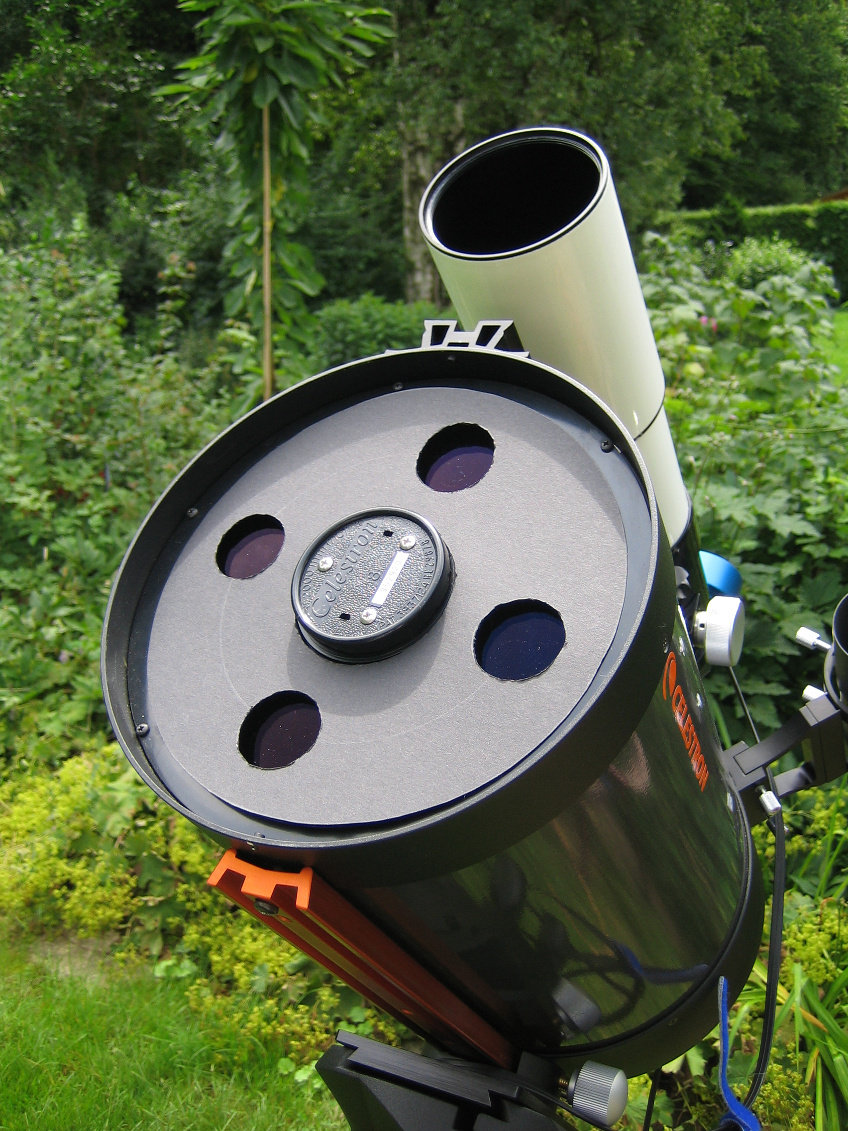 Scheiner blind; a help for focussing an amateur telescope